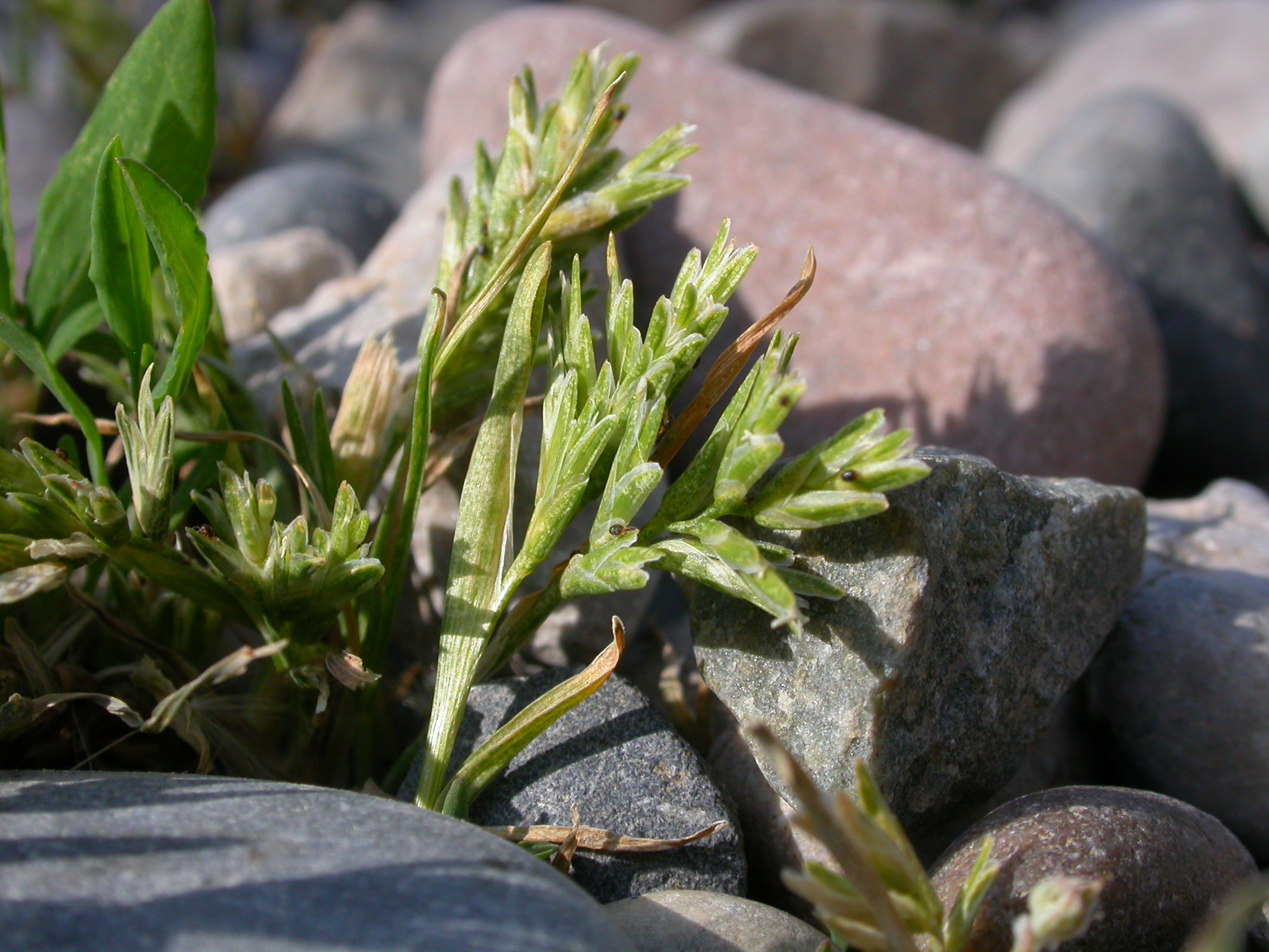 Sclerochloa dura in Idaho Falls, Idaho, USA. "common in gravelly and well trodded settings, such as parking lots and minor roads"